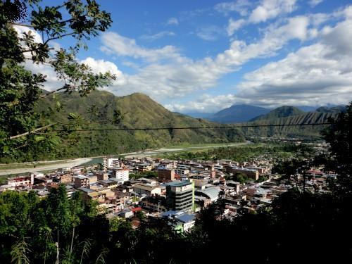 city la merced